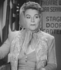 Cropped screenshot of Gracie Fields from the film Stage Door Canteen.